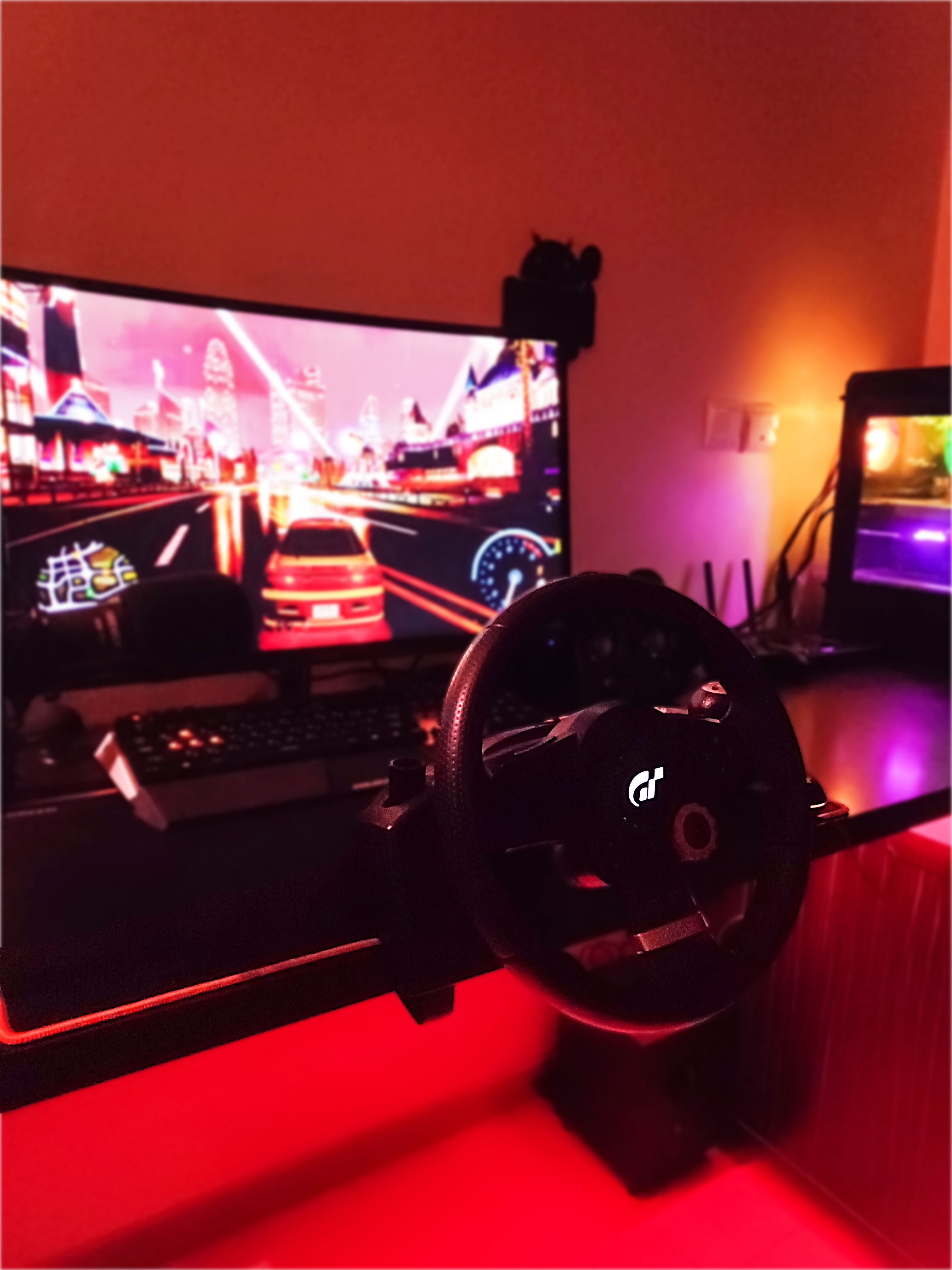 Logitech Driving Force GT in a modern gaming setup